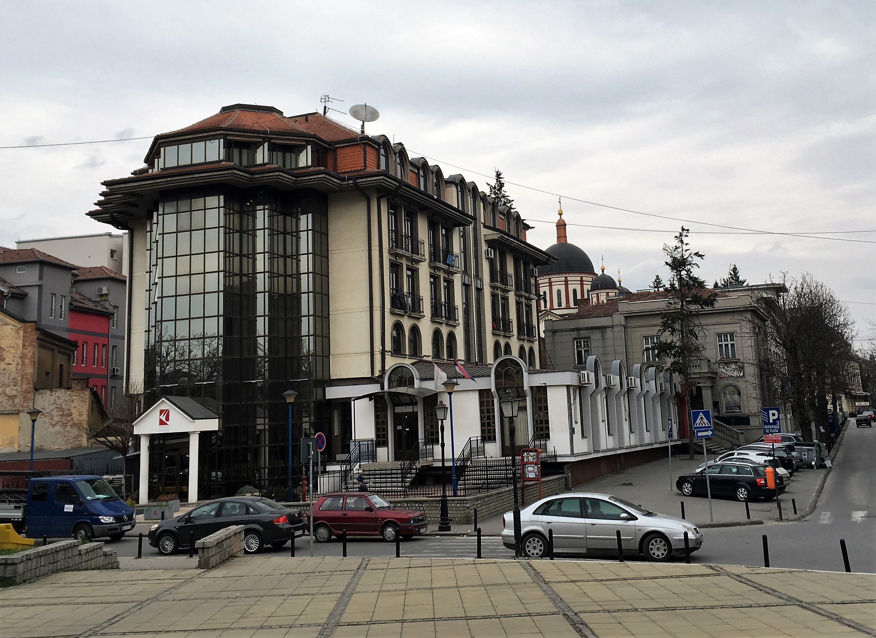 Student Dormitory "Sloboda" in Branka Radičevića street no. 1, Kragujevac, Serbia. Architect dr Veroljub Atanasijević